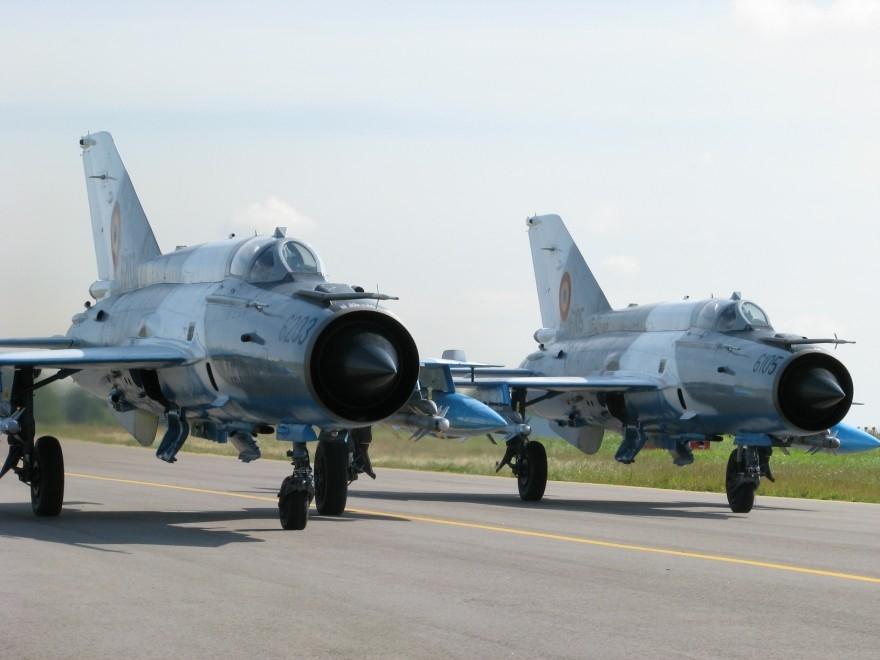 MiG-21s ready to take off during Baltica 2007.